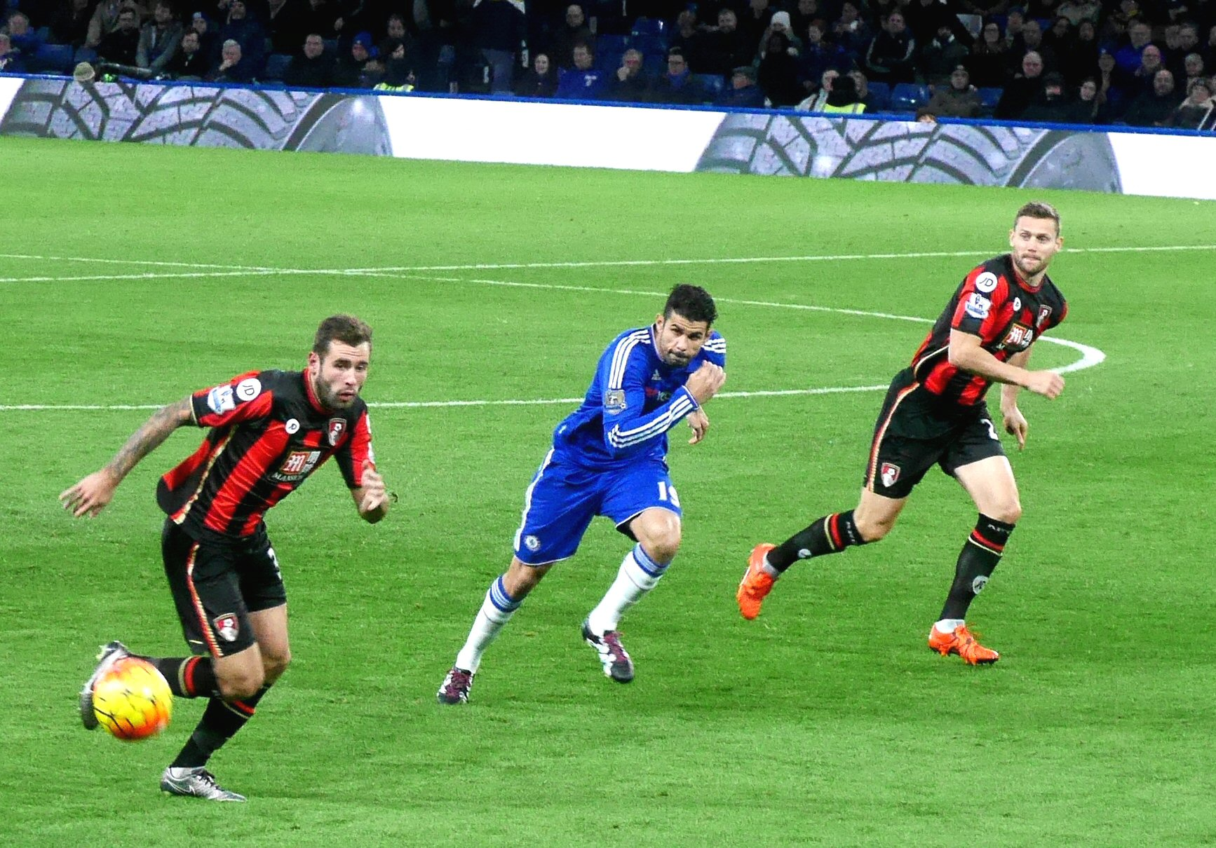 Diego Costa playing for Chelsea FC at home to Bournemouth FC December 2015